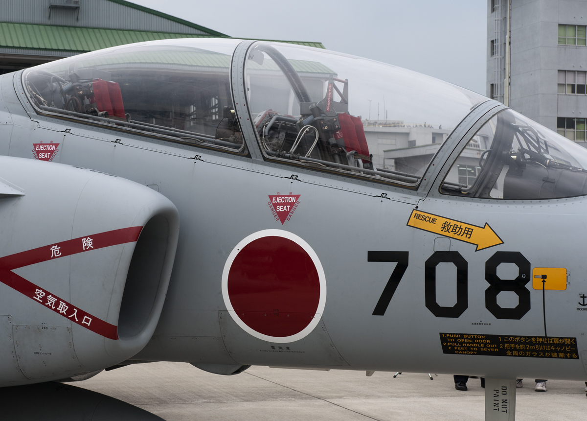 T-4 in to the base of Iruma (Saitama).